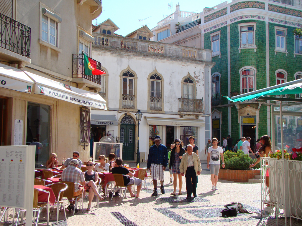 Lagos's historic centre